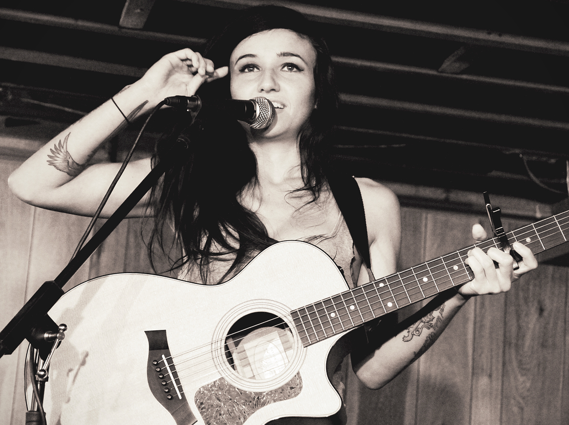 Was lucky enough to get wristbands to a little acoustic set in Toronto (@Sonic Boom Record Store). Best day of my life!